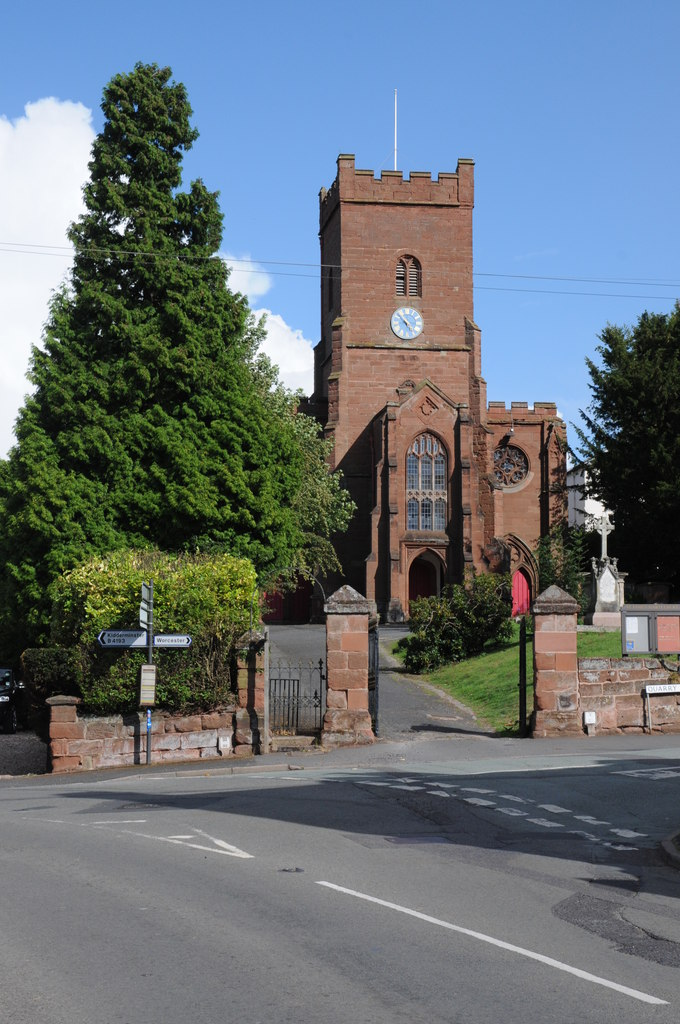 St James' parish church, Hartlebury, Worcestershire, seen from the west